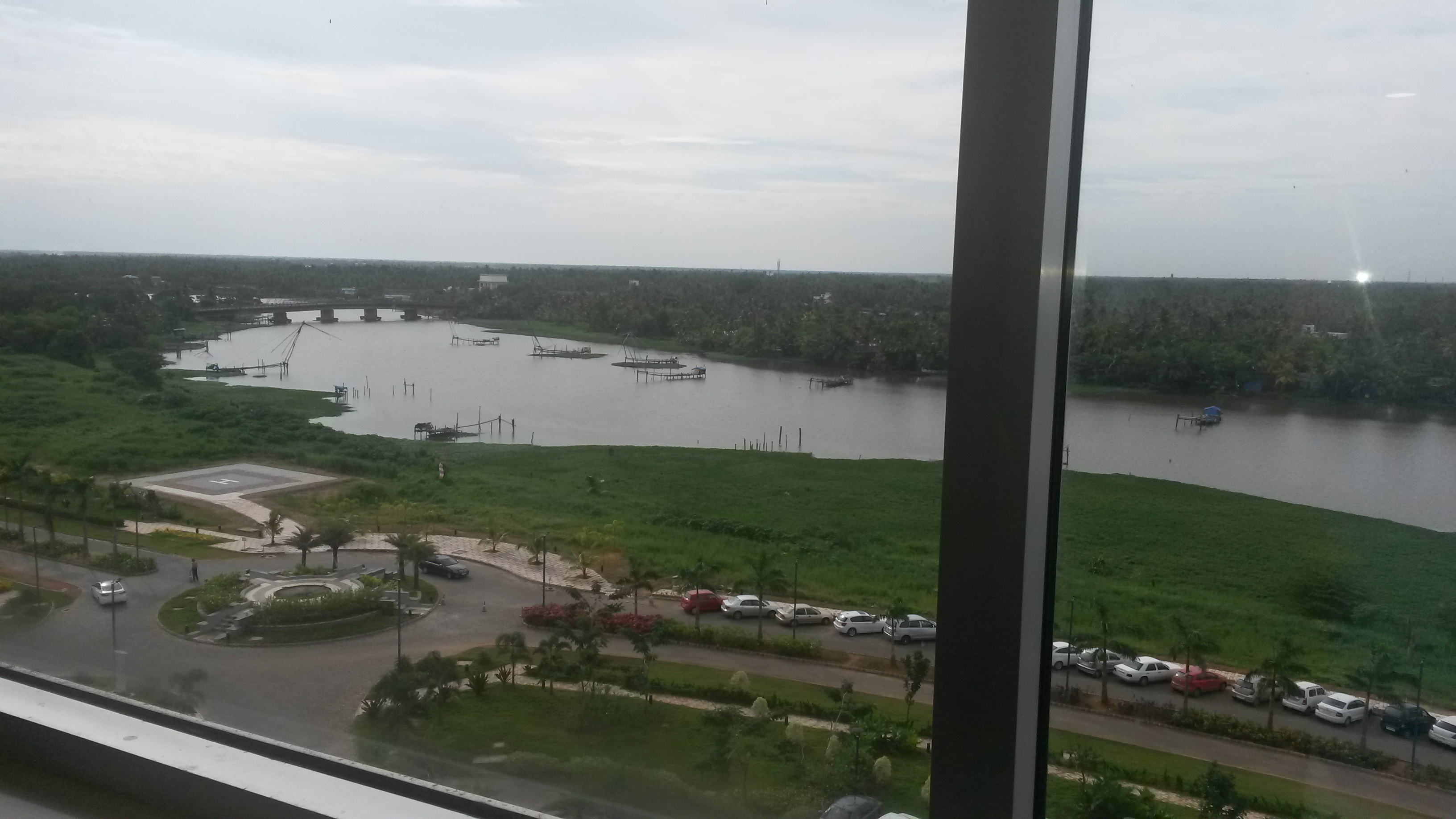 View from the sixth floor